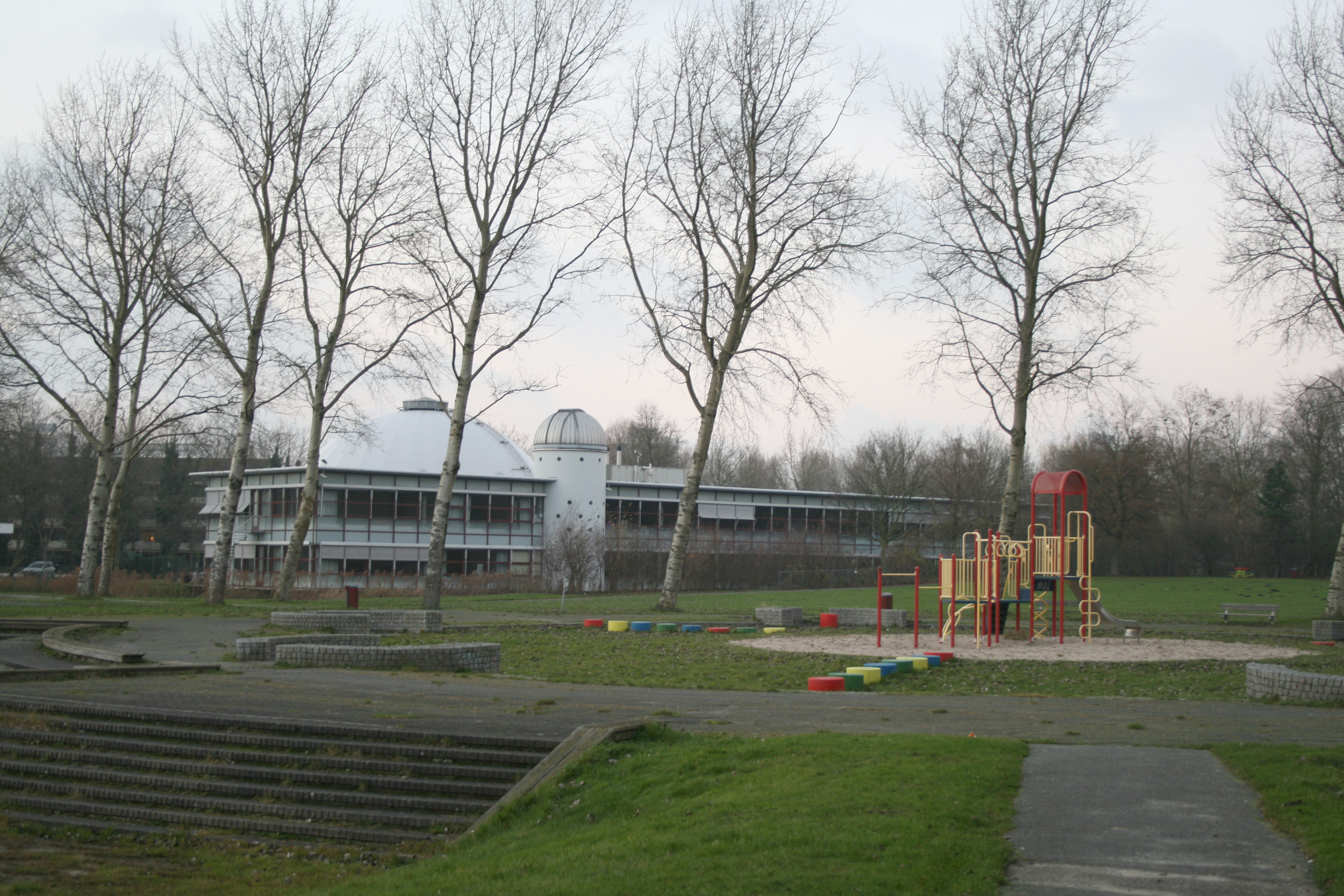 The Gaasperpark is a park in Amsterdam.